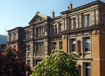 Front view of Karls-Gymnasiums, Tuebinger Strasse 38, 70178 Stuttgart, Baden-Wuerttemberg, Germany